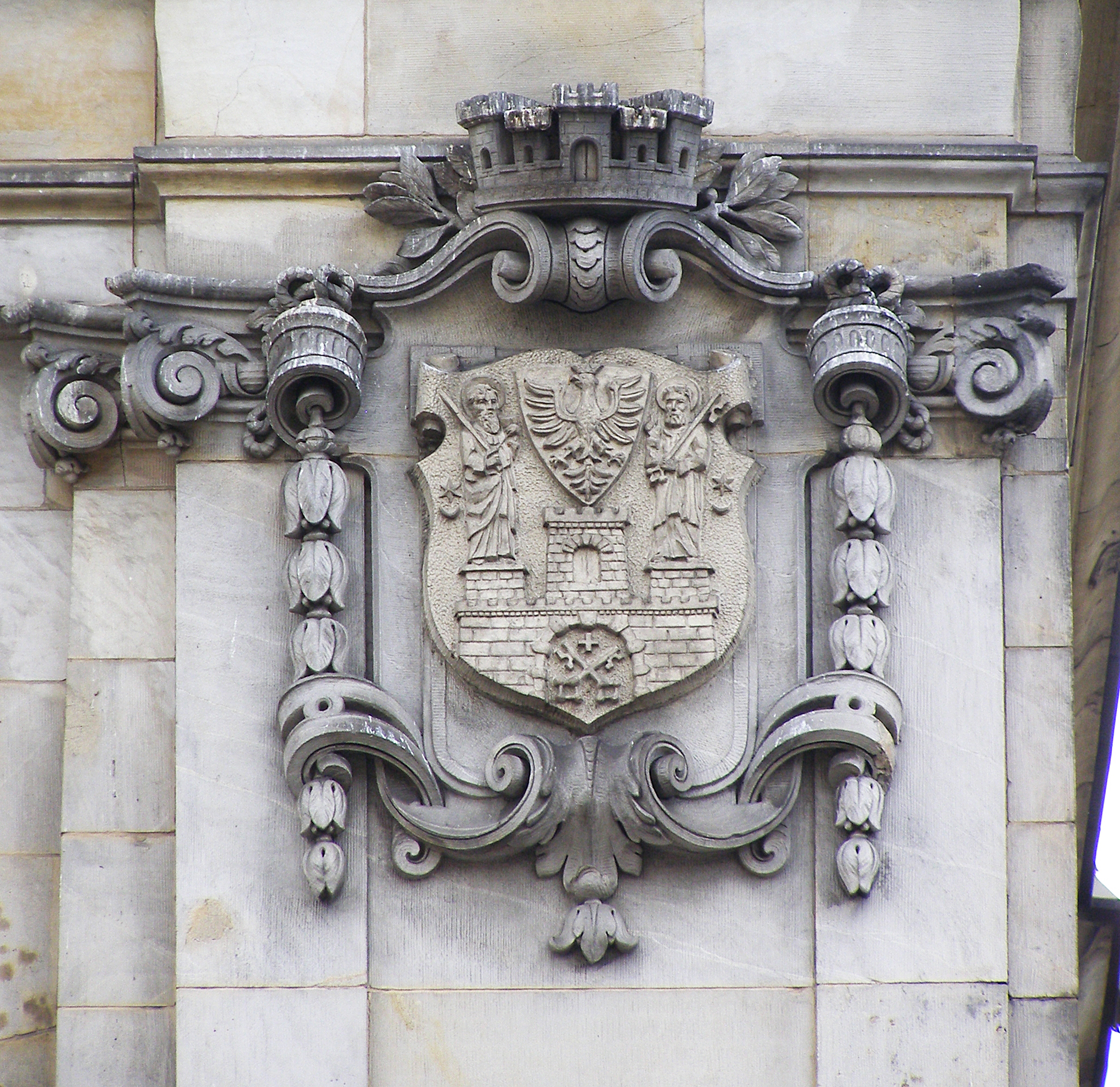 Poznań - coat of arms of the city on the University Library building